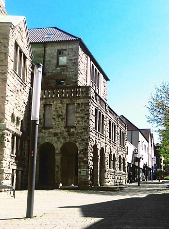 South view of the rabbinerhouse of the former synagoge of Essen